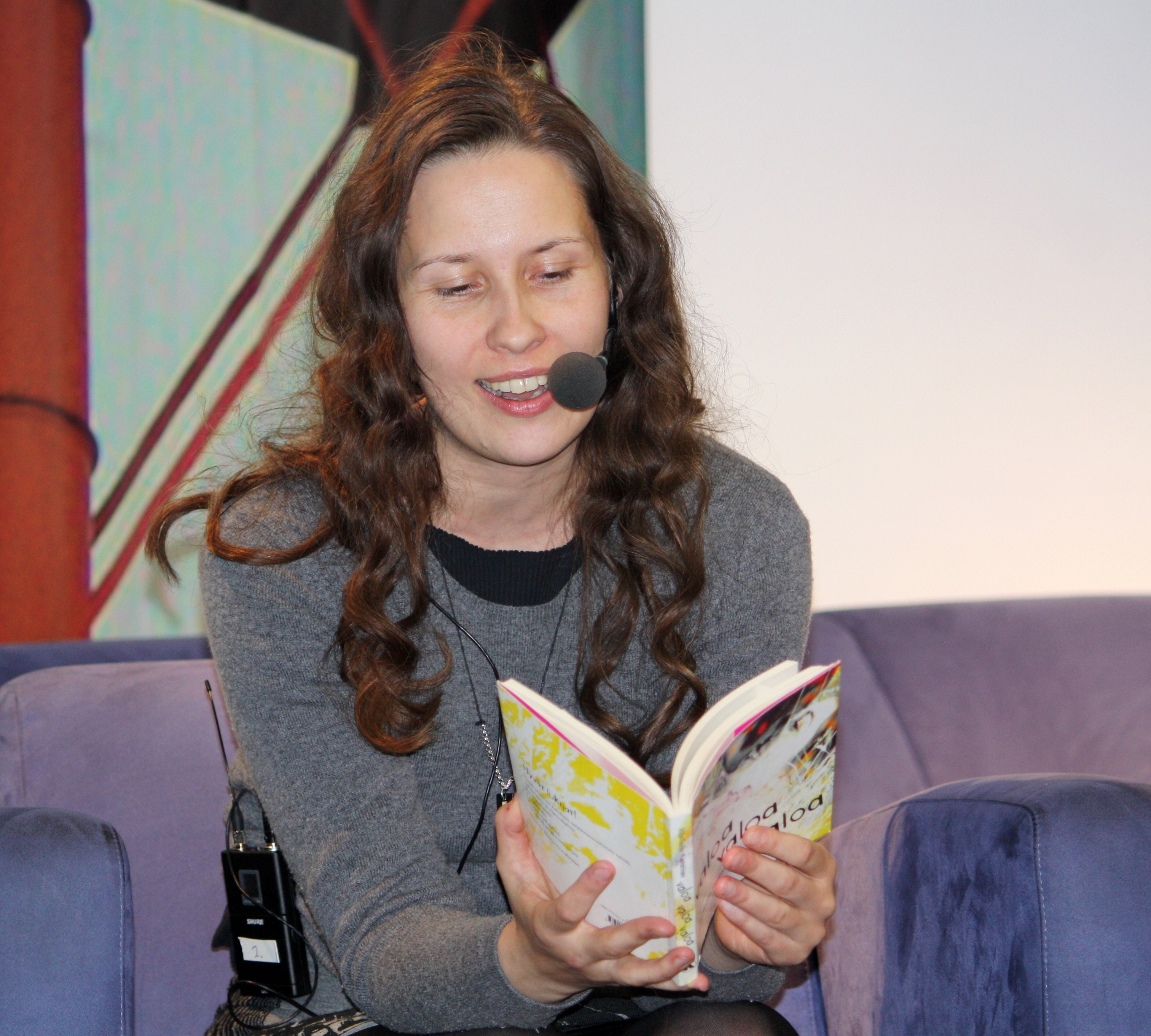 Poet and writer Vilja-Tuulia Huotarinen at Tampere Book Fair 2012.